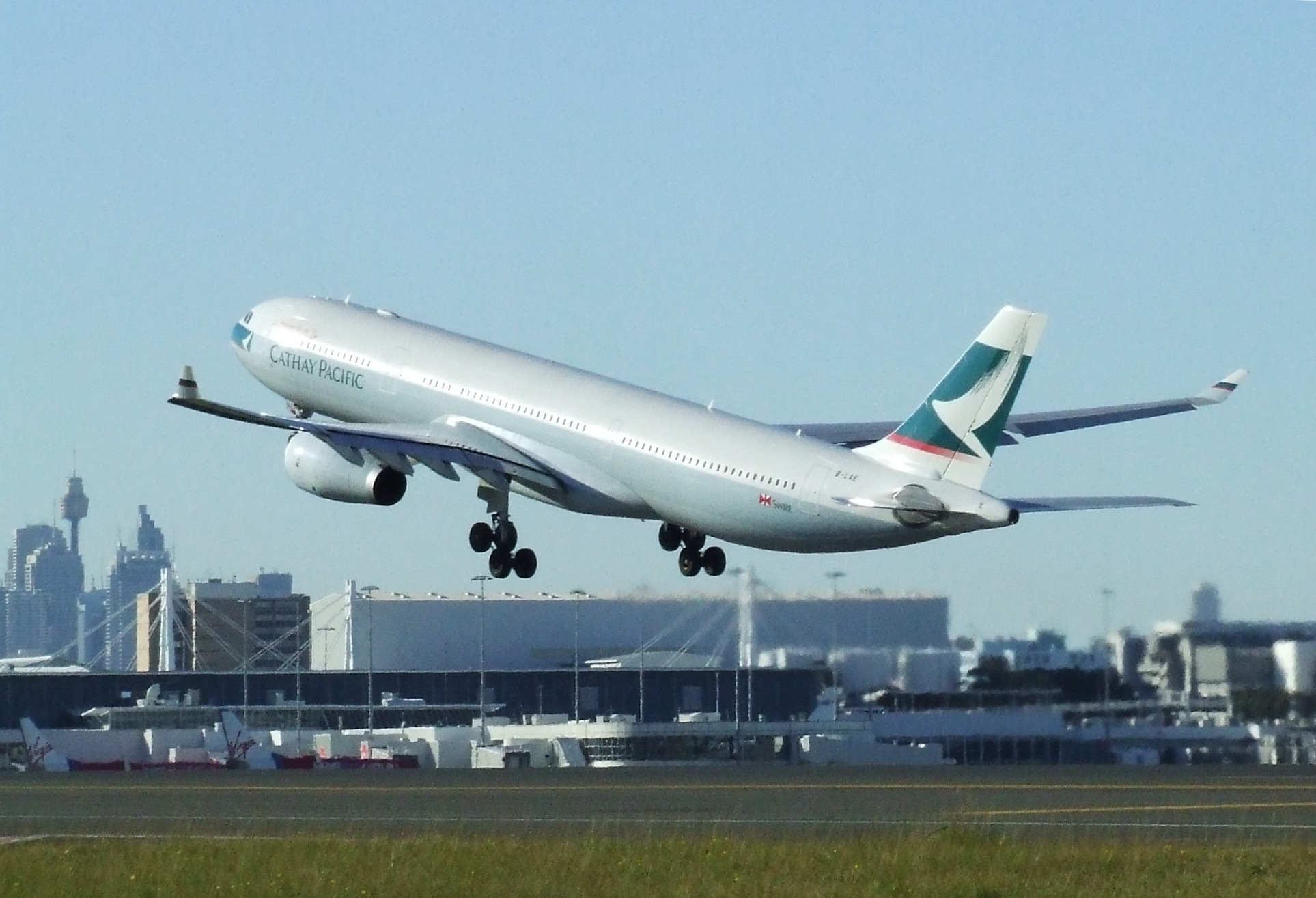 Cathay Pacific A330 B-LAE climbing off runway 34L with the distinctive Sydney skyline in the background.